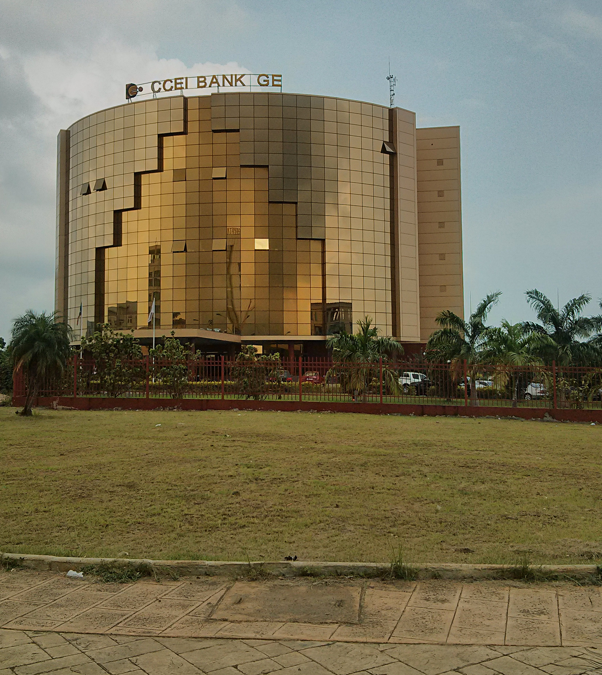 Headquarter Caisse Commune d'Epargne et d'Investissement Guinea Ecuatorial in Malabo, Barrio Malabo Dos